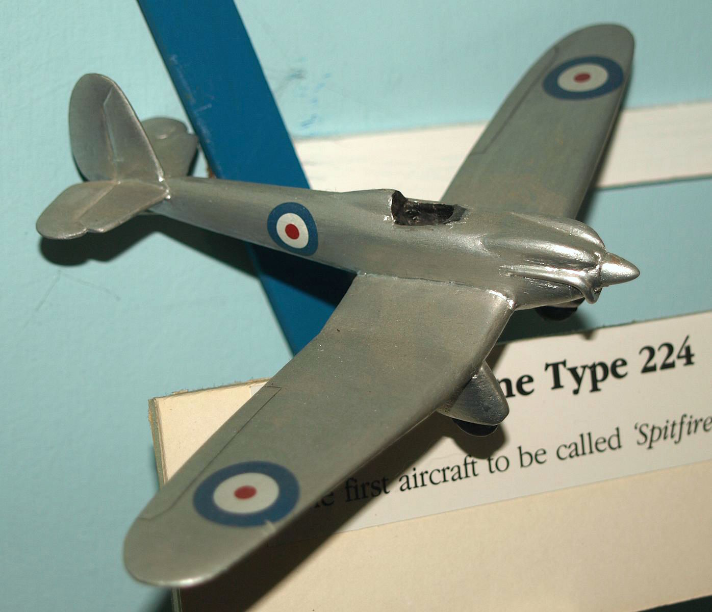 Model of the Supermarine Type 224 prototype fighter aircraft on display at the Solent Sky aviation museum, Southampton.